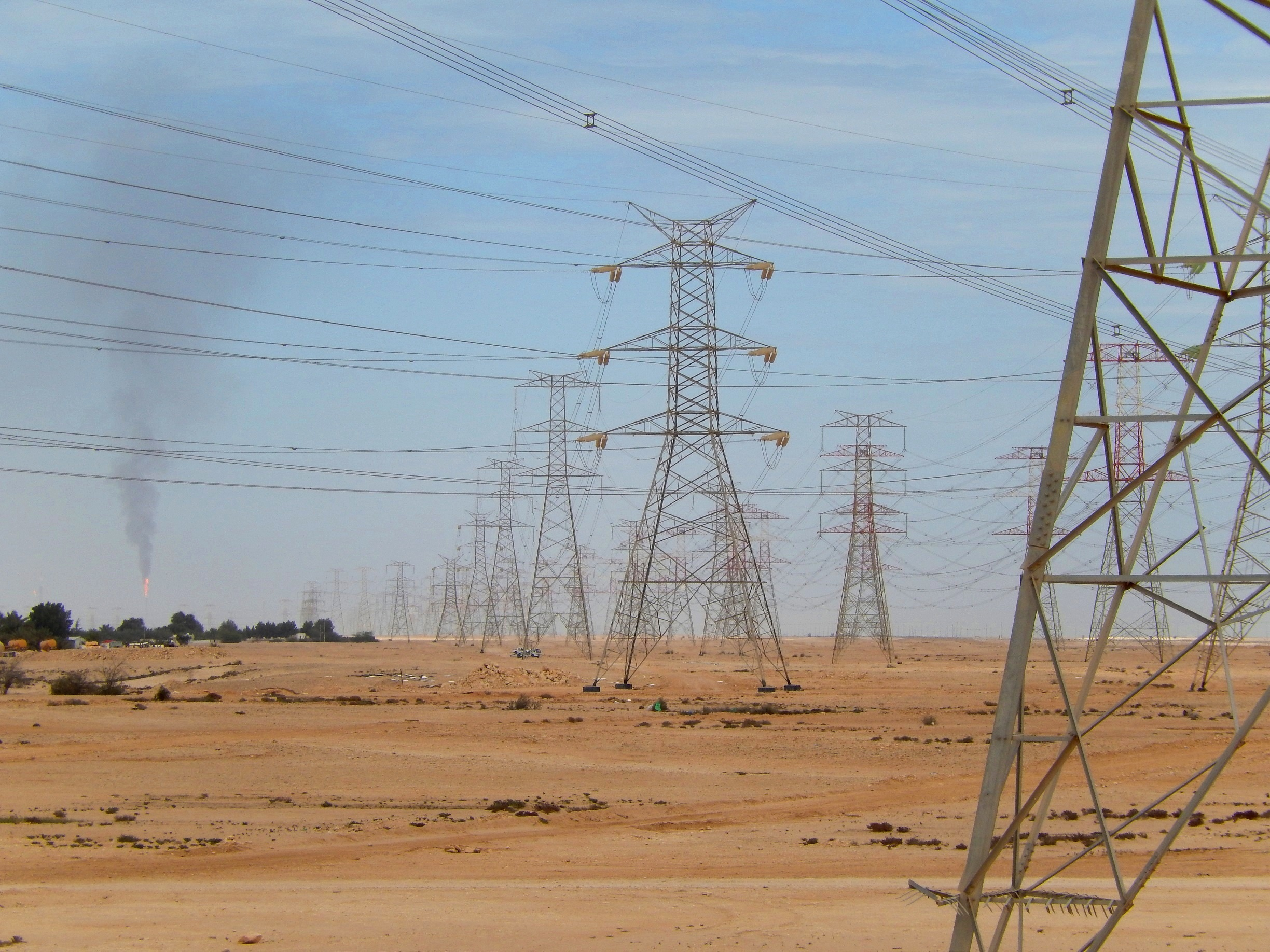 Power lines in the municipality of Al Khor in northern Qatar, not far from the village of Umm al Quhab (also known as Umm al Qahab). Note the gas flaring in the distance in Ras Laffan Industrial City.